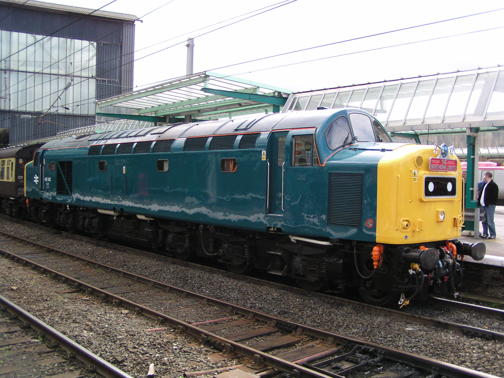 BR Class 40, no. 40145 at Carlisle on 27th August 2004.